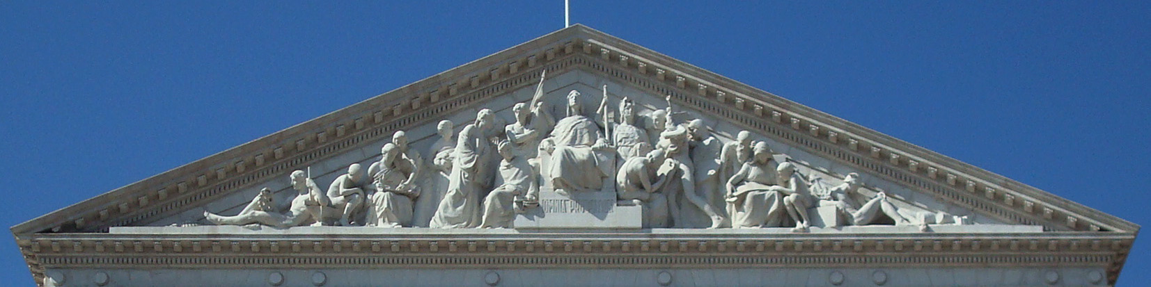 Portuguese Parliament building front facade; sculptures by José Simões de Almeida (sobrinho)